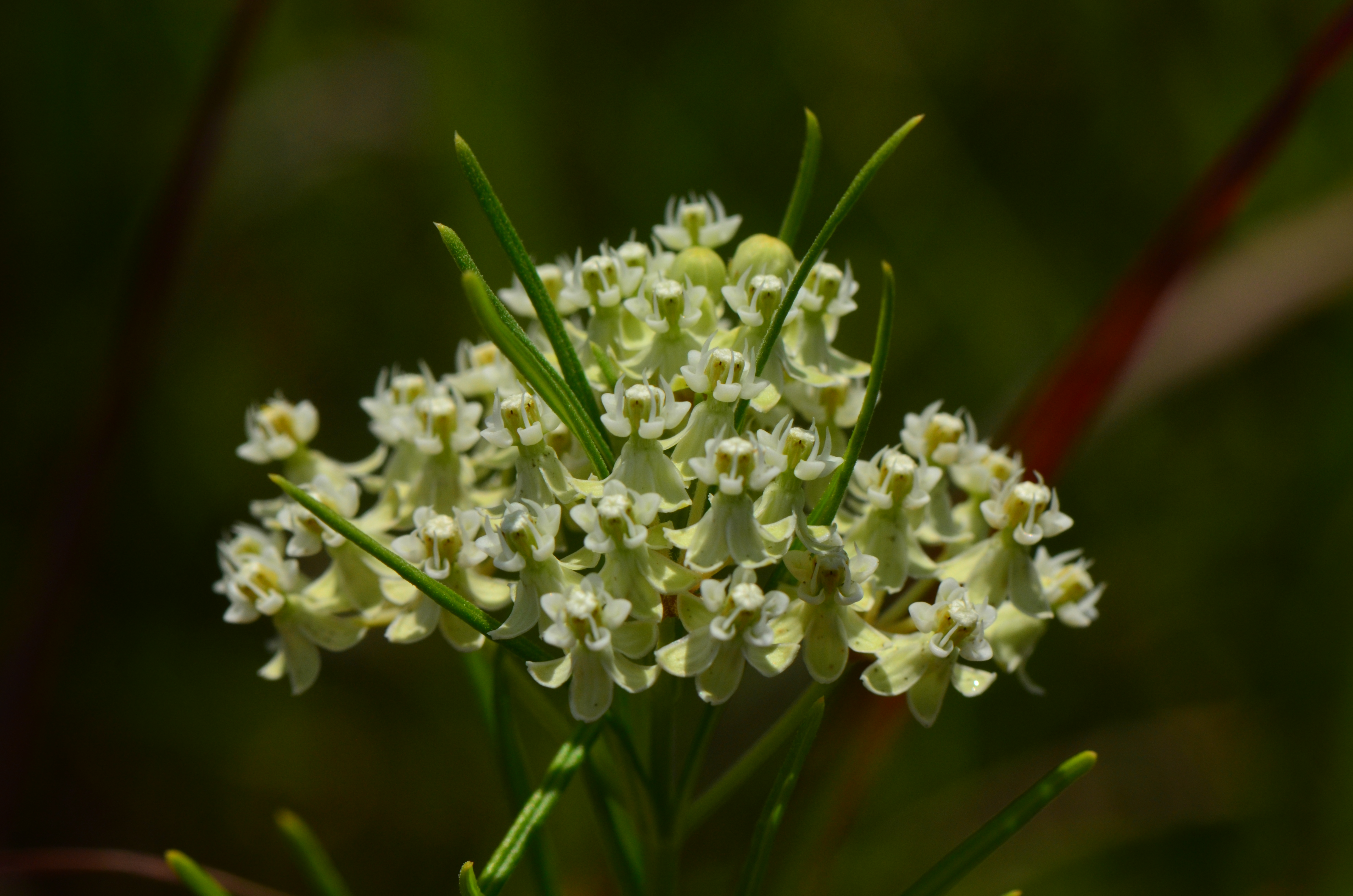 Asclepias verticillata L. - whorled milkweed - Smith Drumlin Prairie - Wisconsin State Natural Area #654 - Dane County